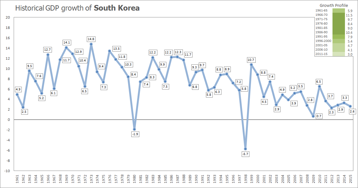 The chart shows the economic growth of South Korea from 1961-2015. Also shown are the five-year averages in the same time frame.